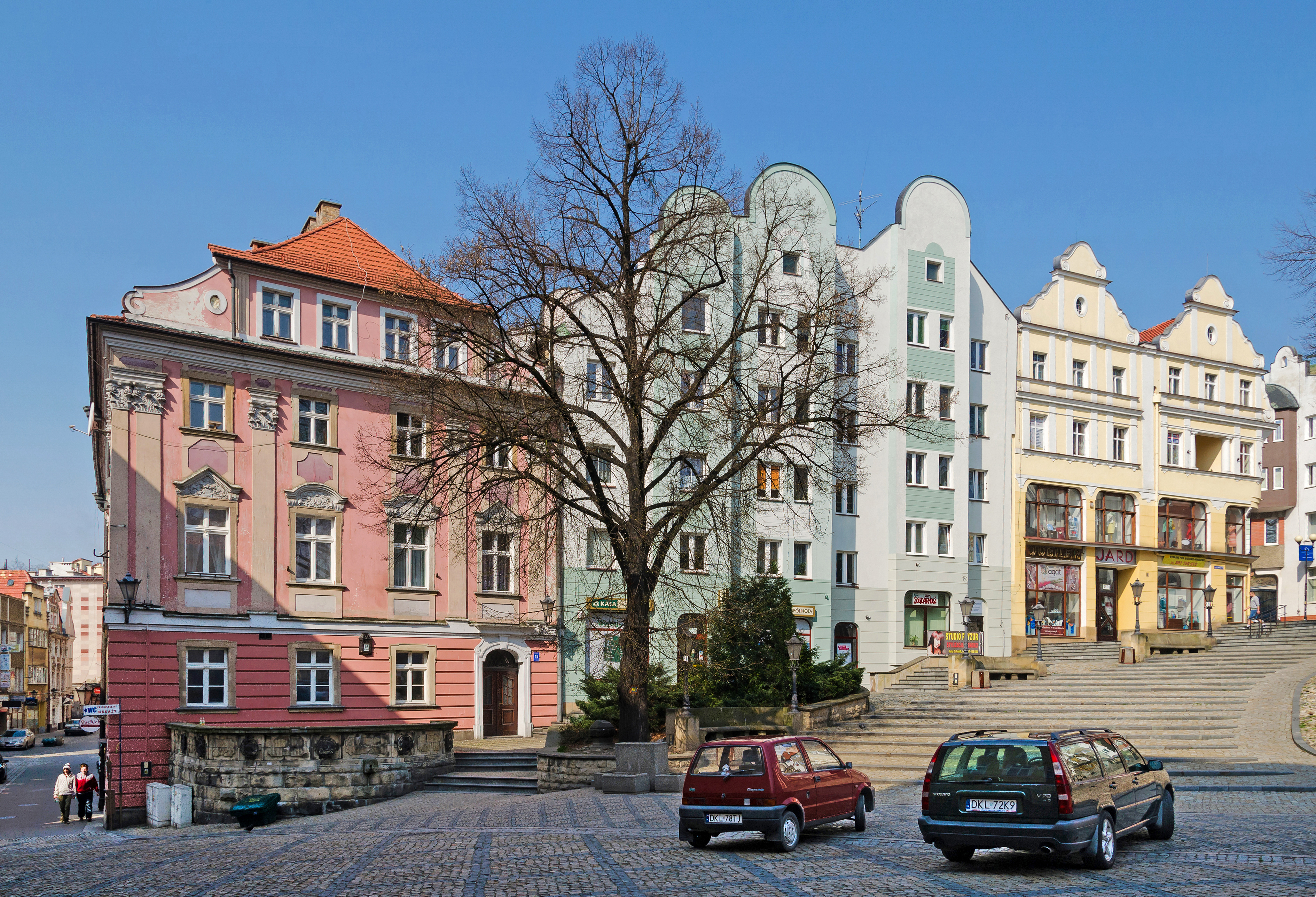 Western frontage of the market square in Kłodzko